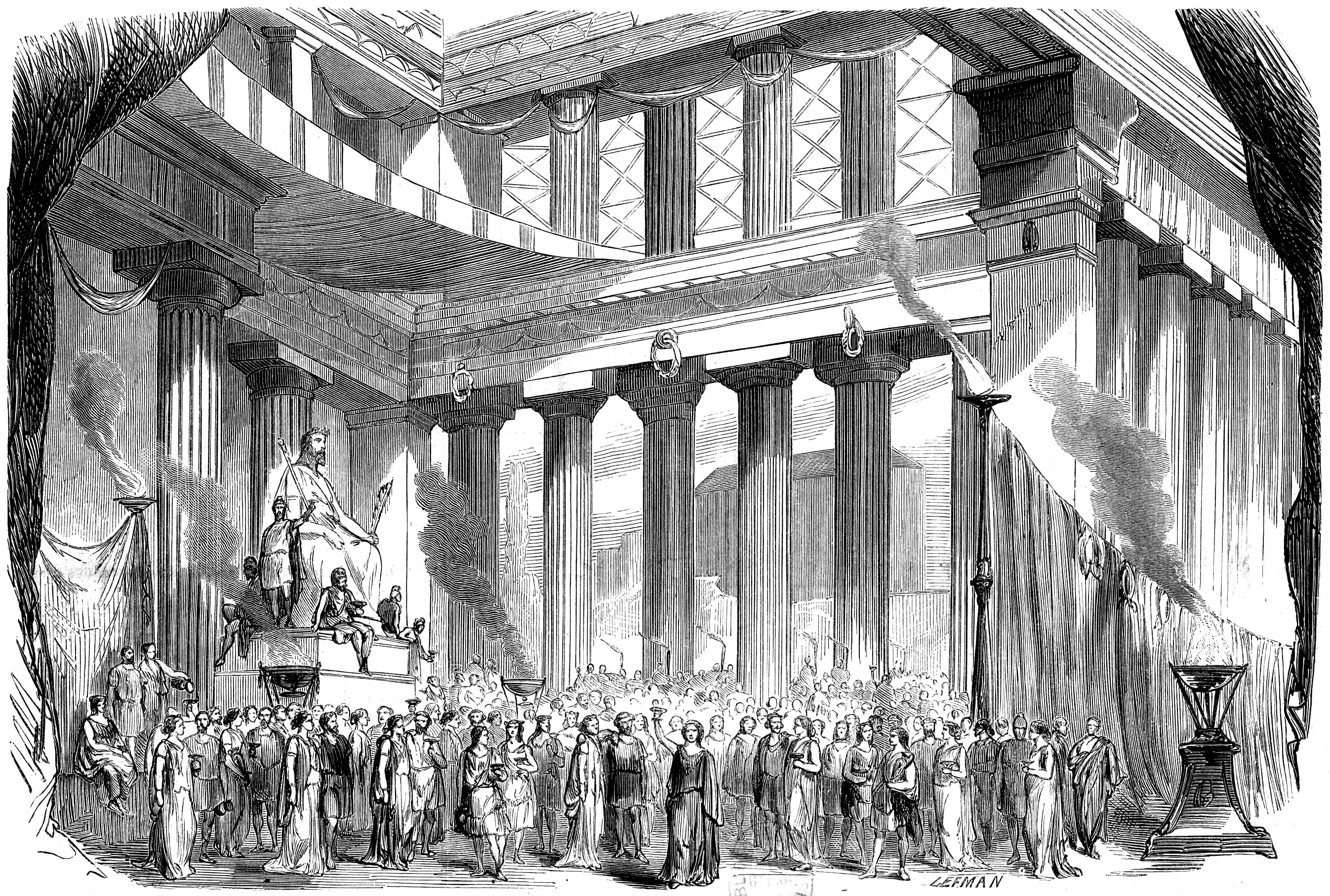 press illustration after MM. Cambon and Thieri